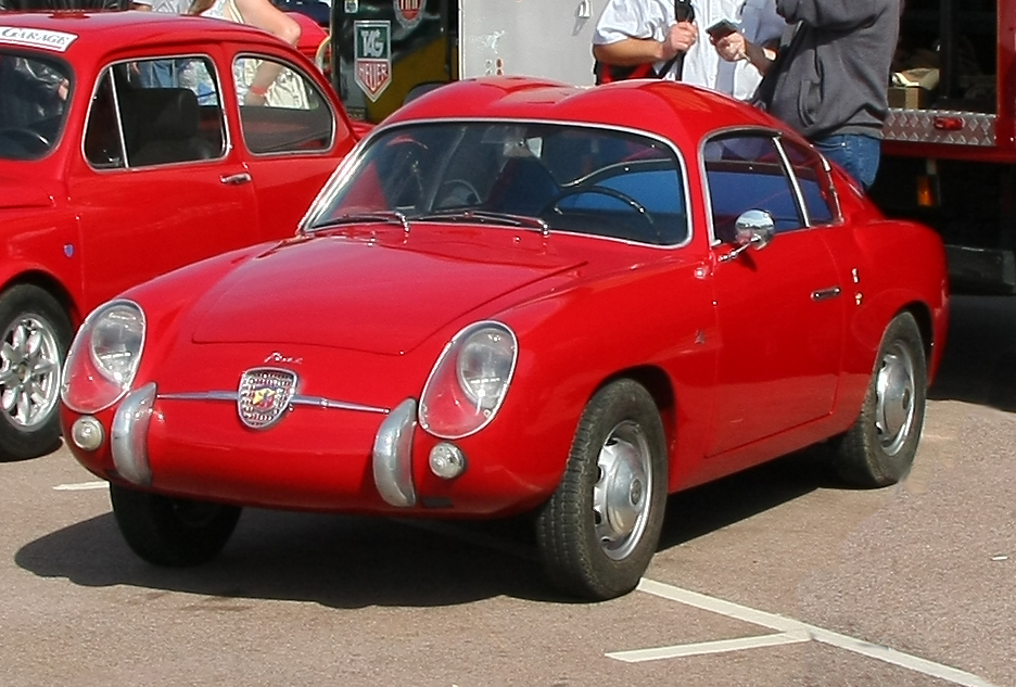 Abarth 750 Zagato "double bubble" at the Auto Italia 2008, at the Gaydon Heritage Motor Museum